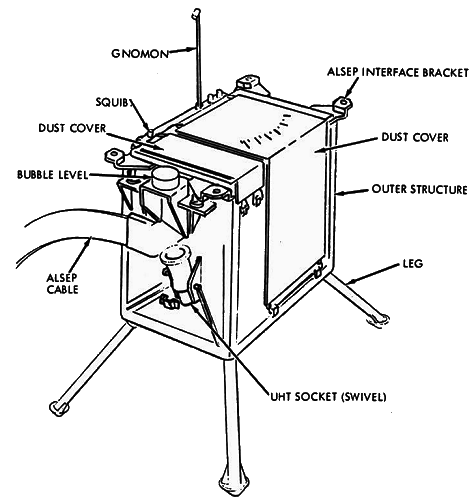 Diagram of the Lunar Ejecta and Meteorites Experiment. Part of the ALSEP.